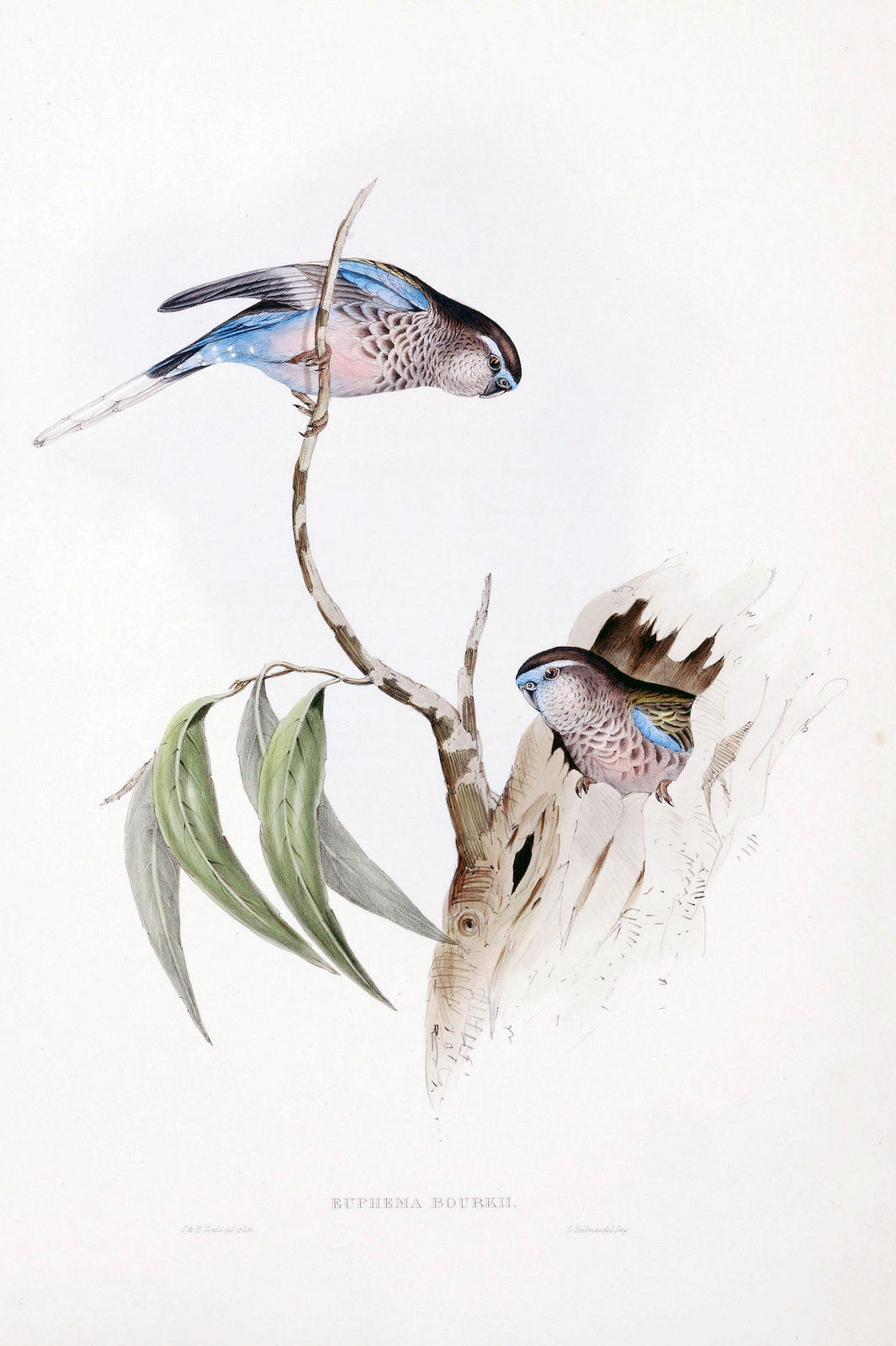 Bouke's Grass-Parakeet (Euphema bourkii) illustrated by Elizabeth Gould for John Gould’s The Birds of Australia (1972 Edition, 8 volumes).